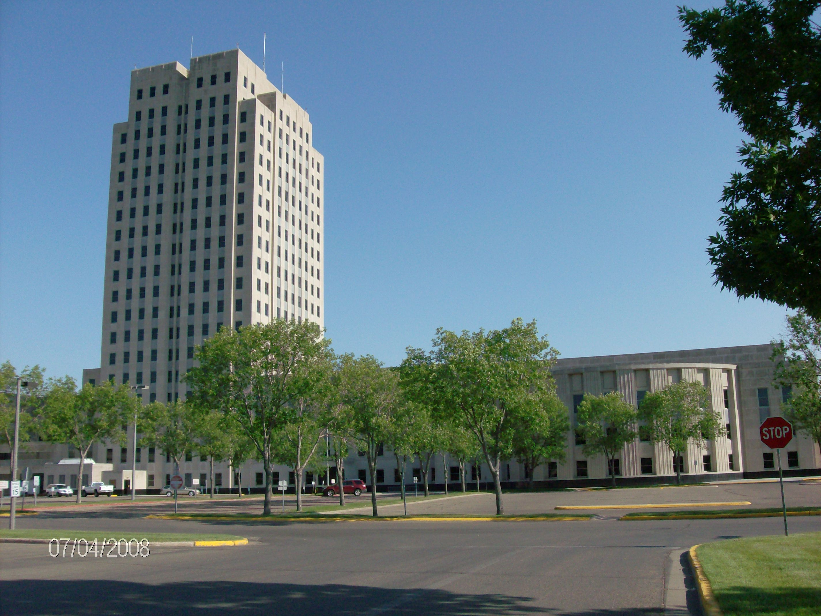 North Dakota State Capitol